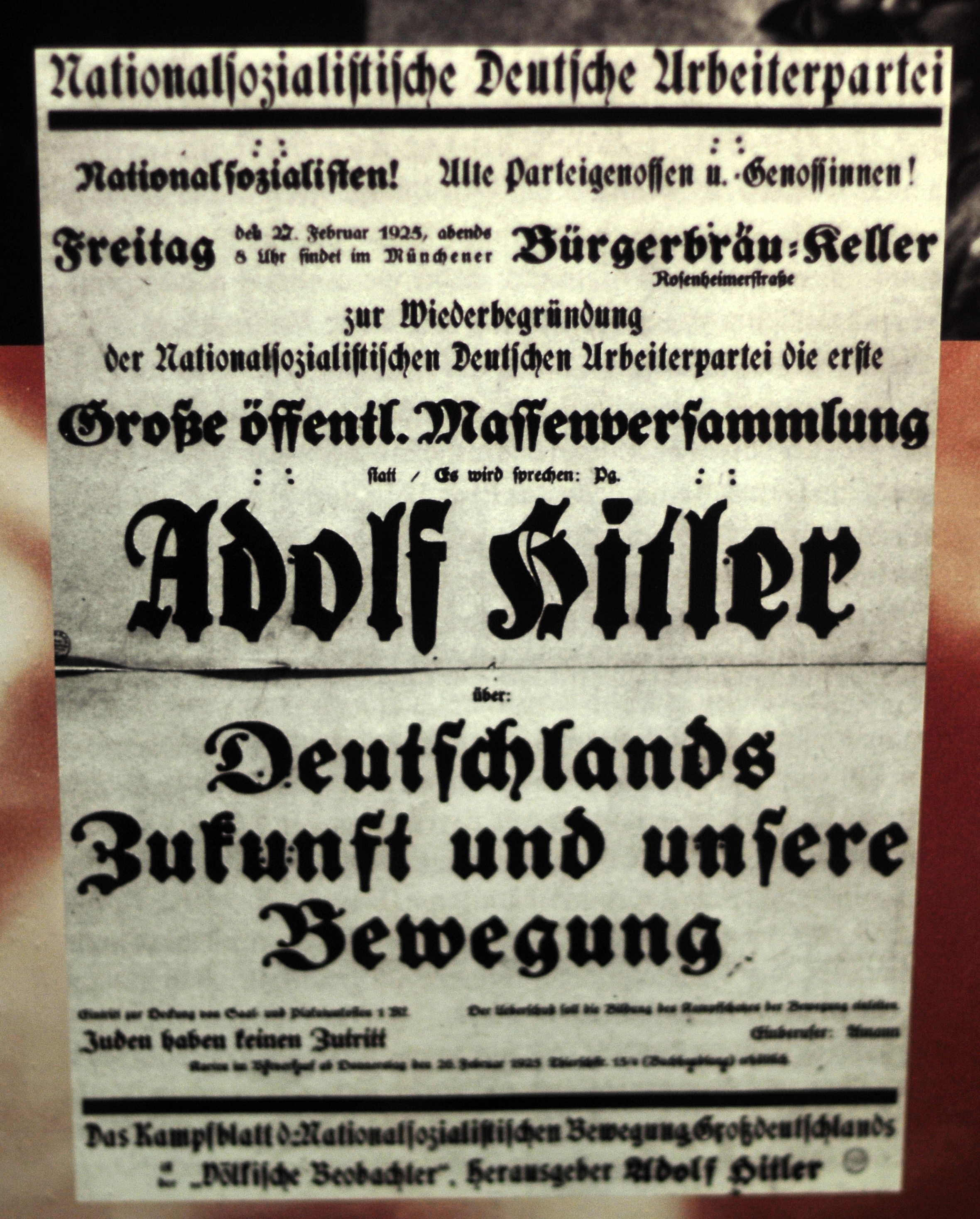 Kongreßhalle Nuremberg at the Reichsparteitagsgelände; Documents The making of this work was supported by Wikimedia Austria. For other files made with the support of Wikimedia Austria, please see the category Supported by Wikimedia Österreich. This file is ineligible for copyright and therefore in the public domain because it consists entirely of information that is common property and contains no original authorship.